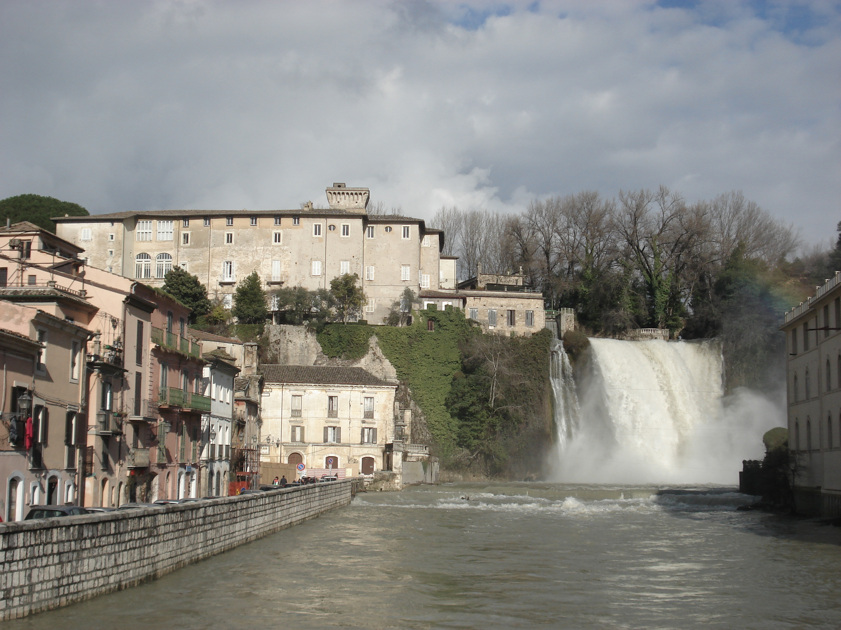 The c- 30 m-high waterfall, Cascata Grande, and the Duke Castle in Isola del Liri, Italy.